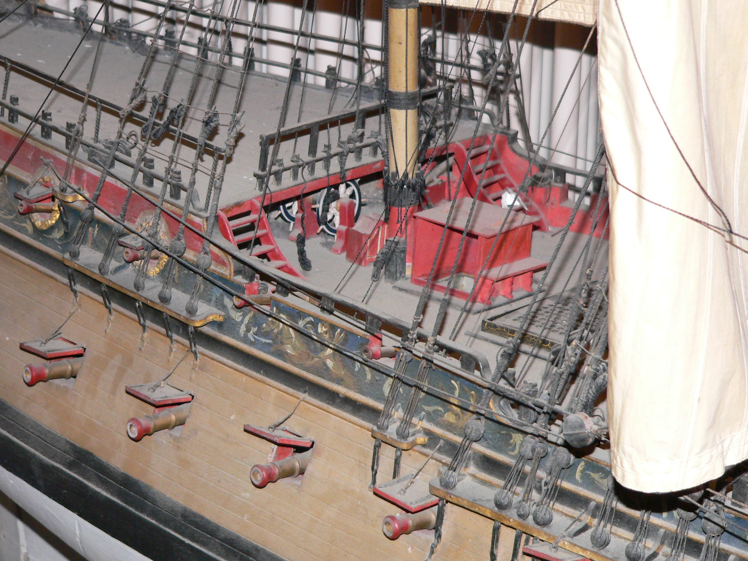 Model of an English frigate, beginning of the 19th Century